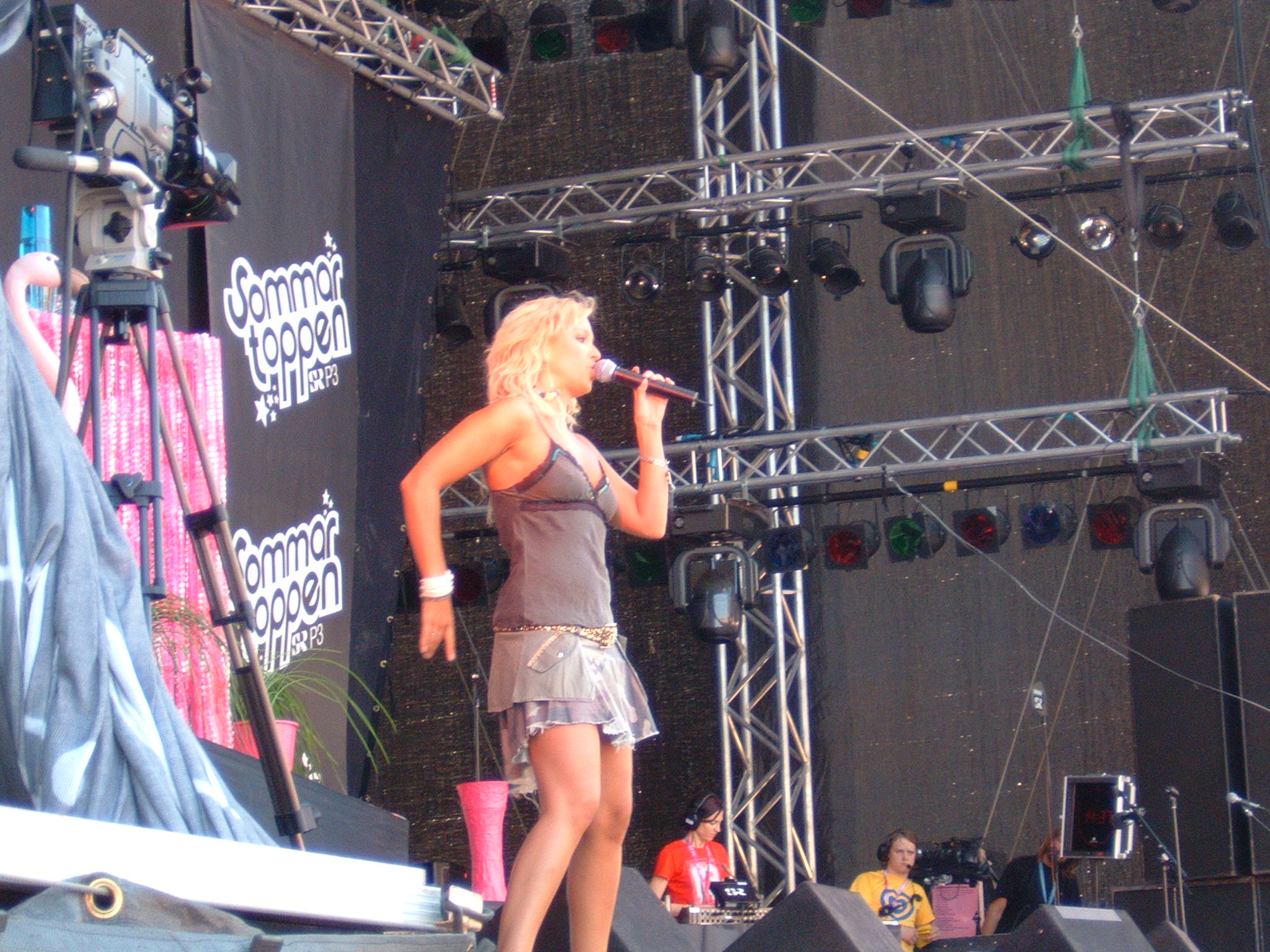 Swedish vocalist "Velvet", Jenny Pettersson, at Gatufesten in Sundsvall, Sweden